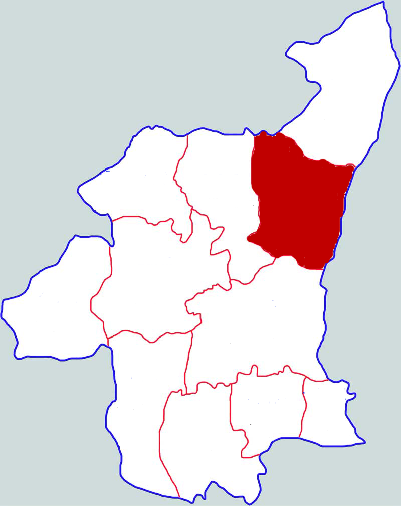 Location of Heyang county in Weinan city, China